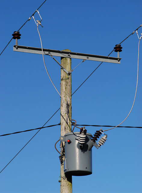 240 V phase-to-phase transformer